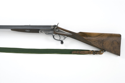 Note: For documentary purposes the original description has been retained. Factual corrections and alternative descriptions are encouraged separately from the original description.dubbelbössa - LRK 33575-6, v sida dubbelbössa - LRK 33575-6, v sida